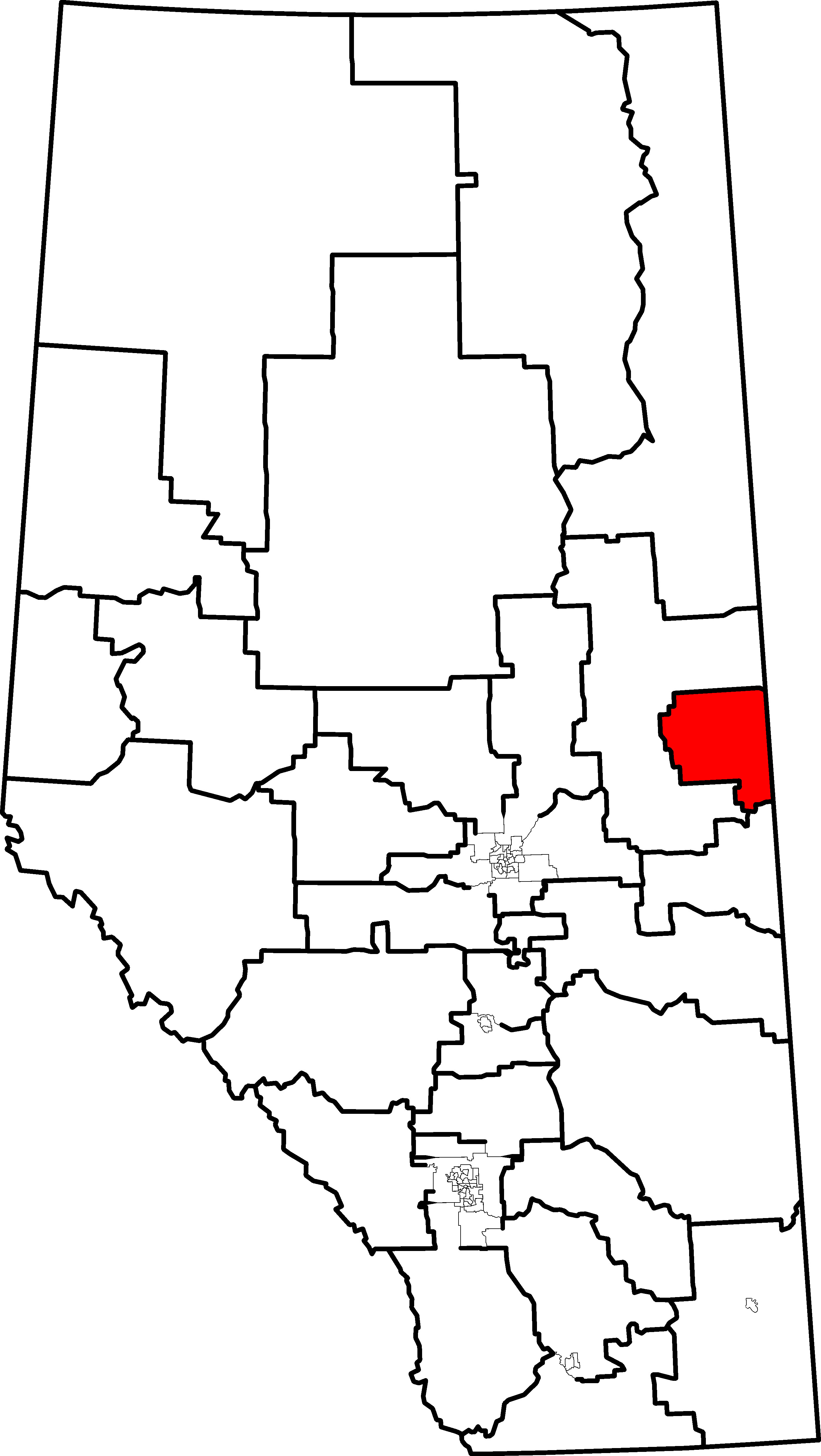 A map of the Alberta provincial electoral districts, effective 2010. Bonnyville-Cold Lake is highlighted in red.